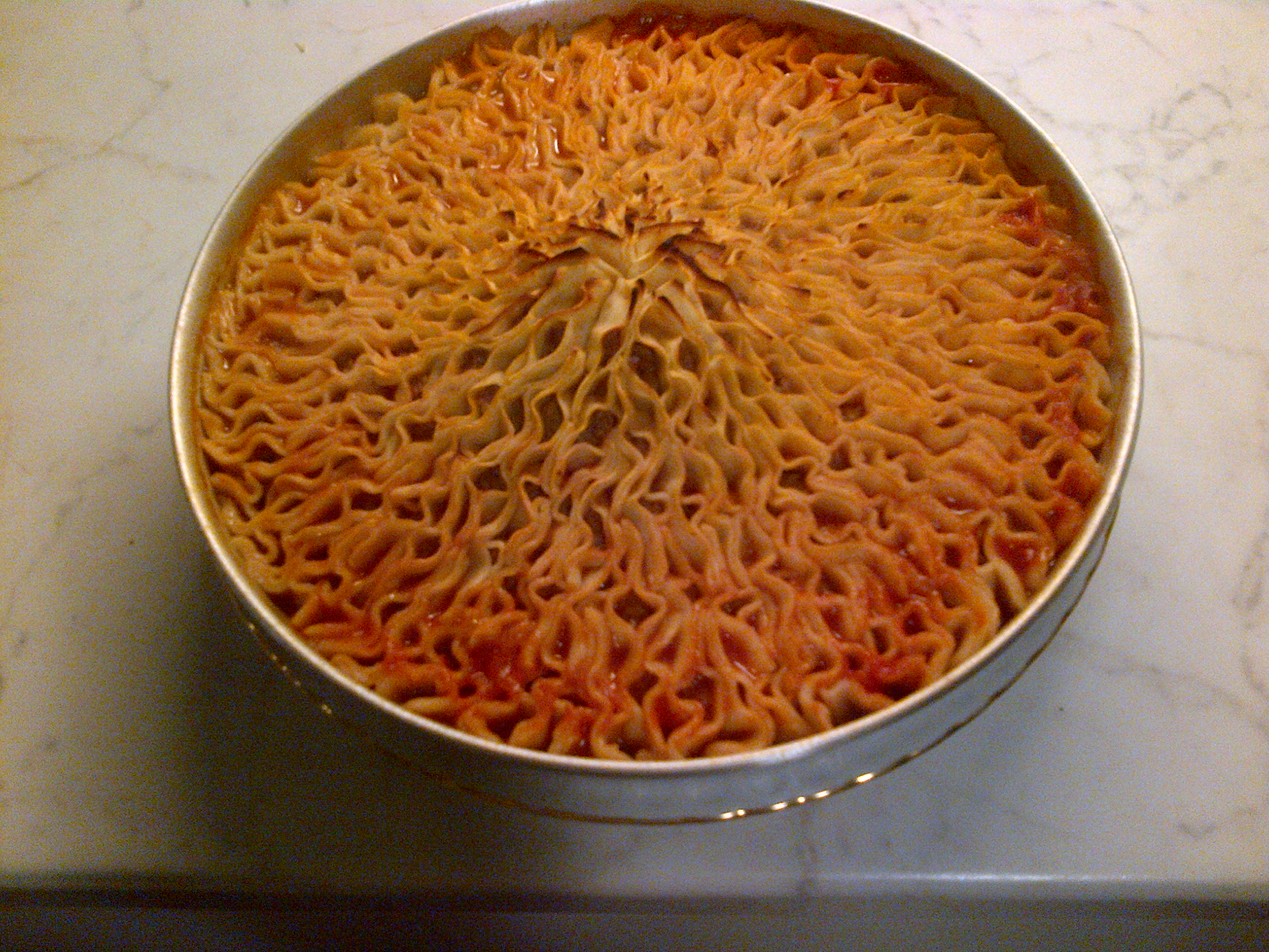 Turkish mantı coming out of the oven.